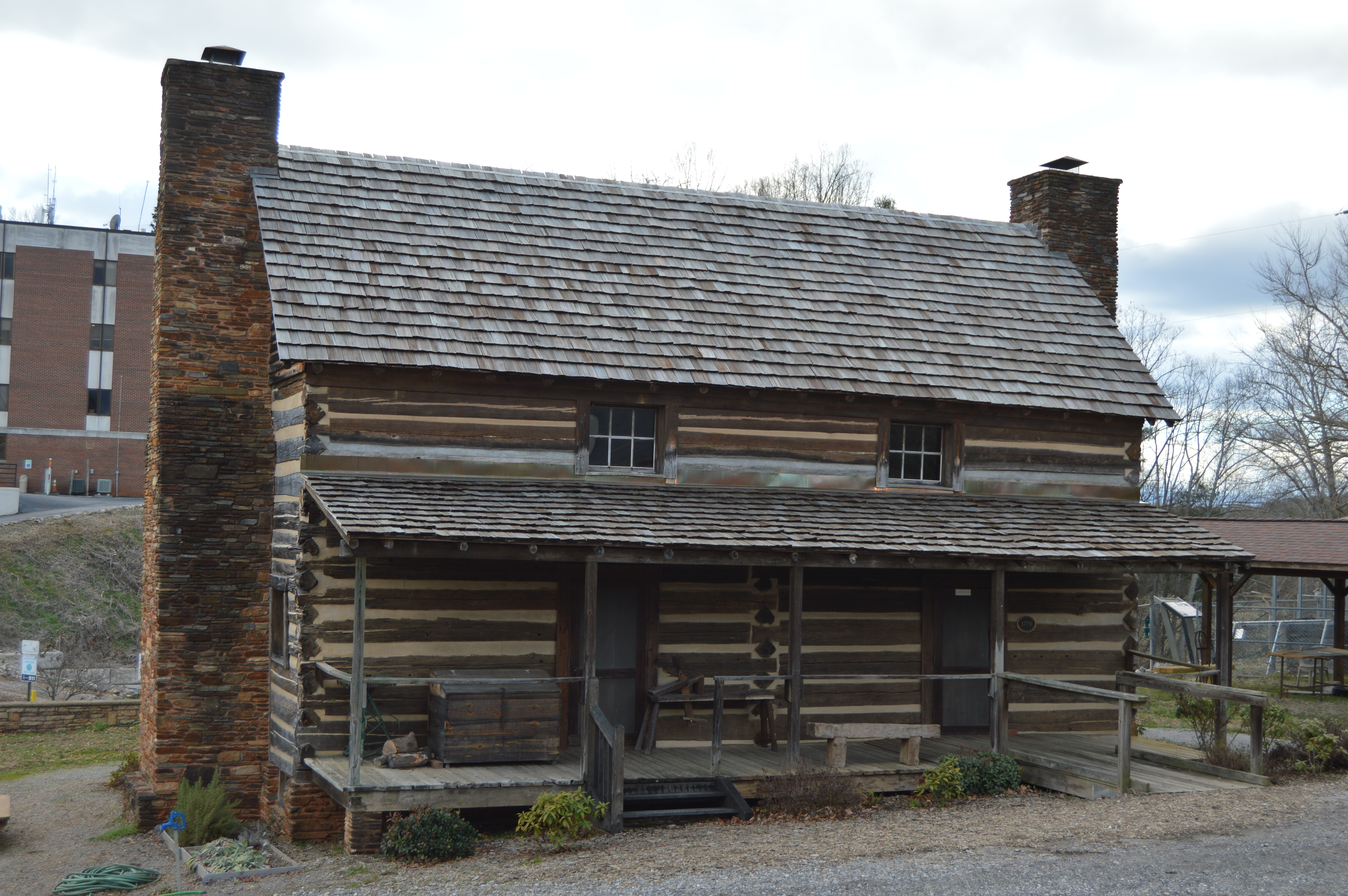 Front of the Robert Cleveland Log House, located along Bridge Street north of North Street in Wilkesboro, North Carolina, United States. Built in 1780, it is listed on the National Register of Historic Places.